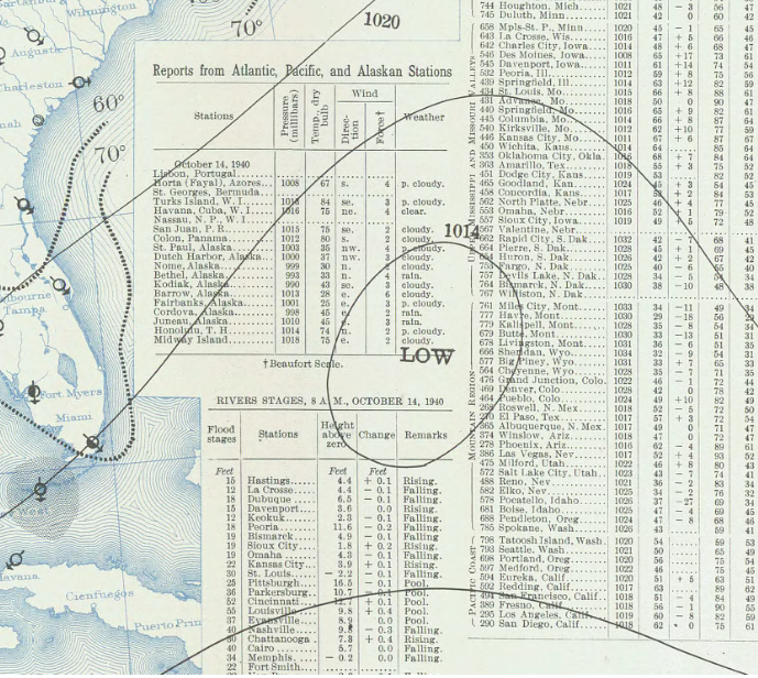 Surface weather analysis of a tropical depression over the Atlantic Ocean on October 14, 1940.